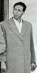 Delegation of the principle leaders of the FLN (left to right: Mohamed Khider, Mostefa Lacheraf, Hocine Aït Ahmed, Mohamed Boudiaf, and Ahmed Ben Bella). Taken after their 22 October 1956 arrest by the French Army following the interception of their (Moroccan civilian) flight between Rabat and Tunis headed for Cairo.